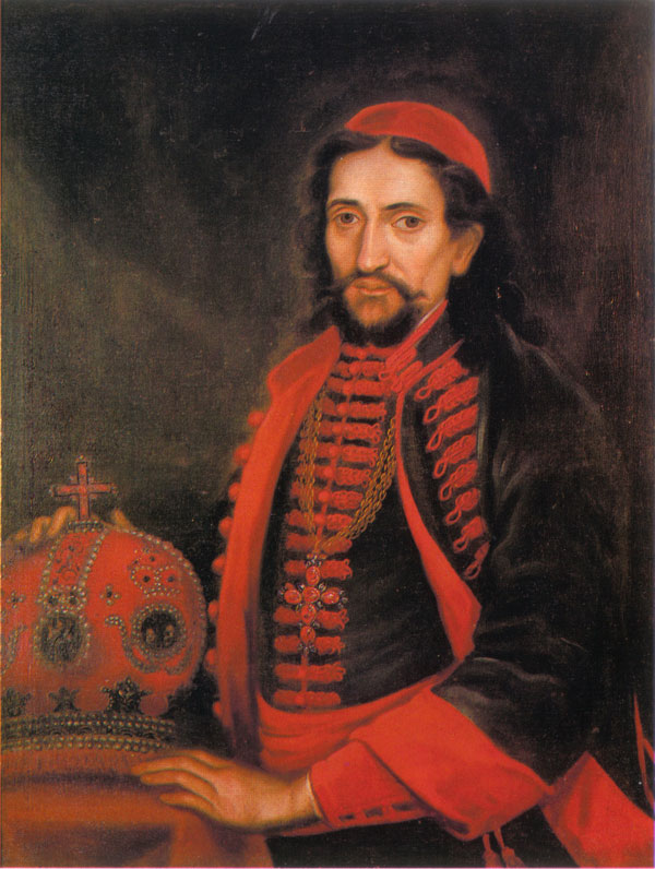 Vikentije Jovanović. Oil painting from the 1732–1737 period.